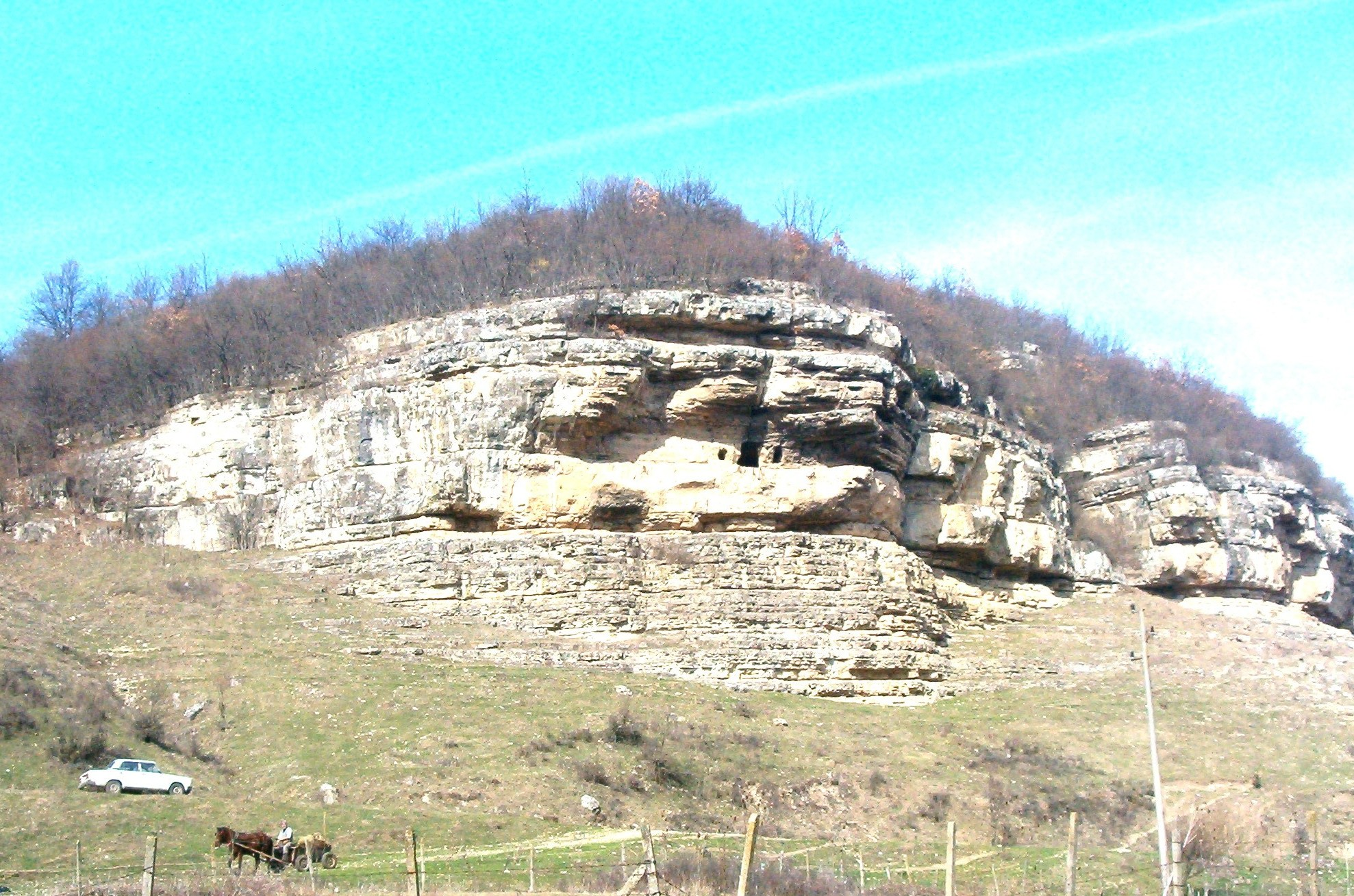 Medieval rock monastery near the village of Krepcha, Opaka region, Bulgaria